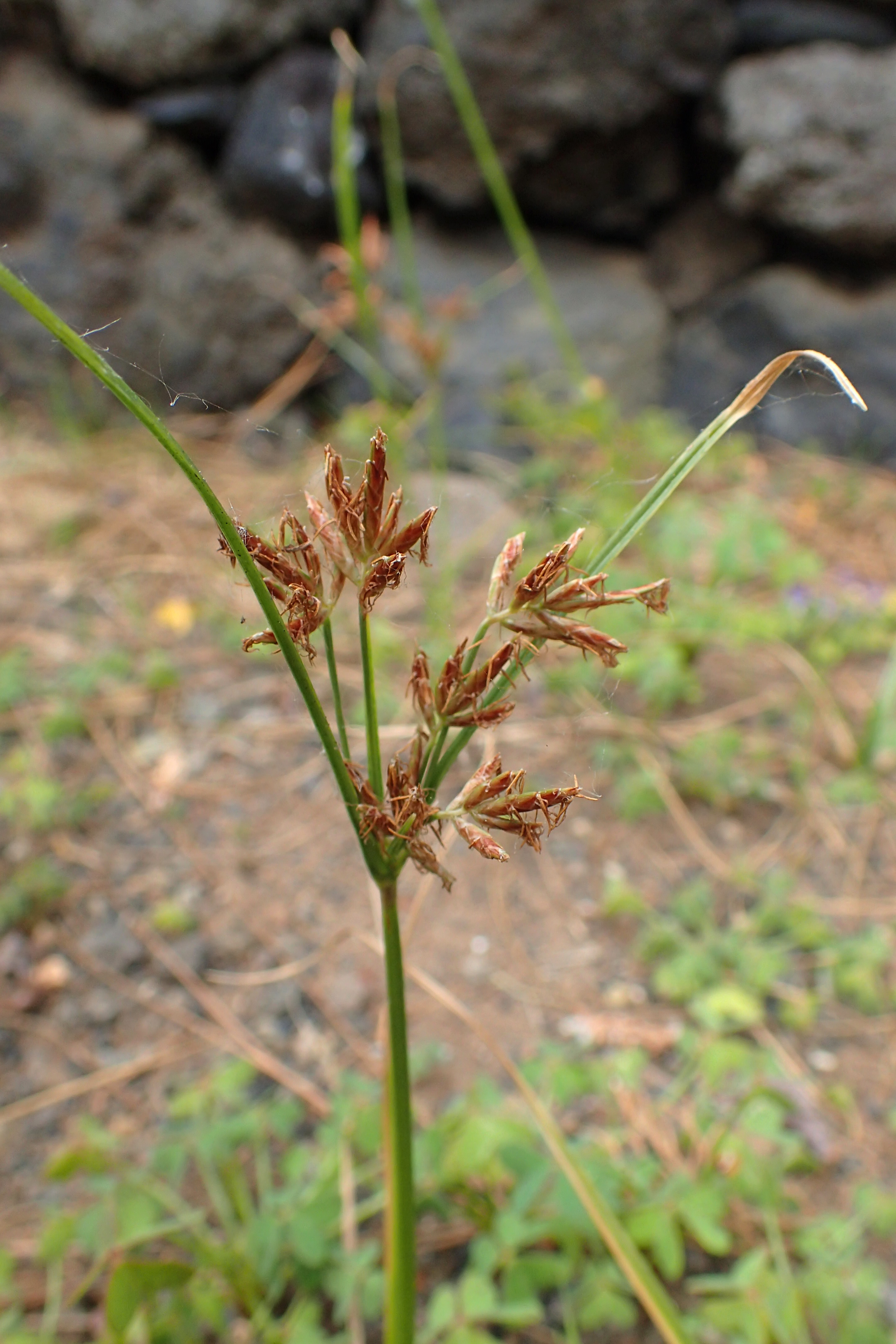 Cyperus longus in Tanque, Tenerife